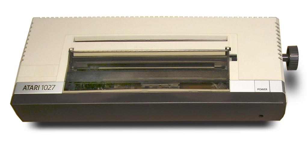 Atari 1027 Letter-Quality Daisywheel Printer